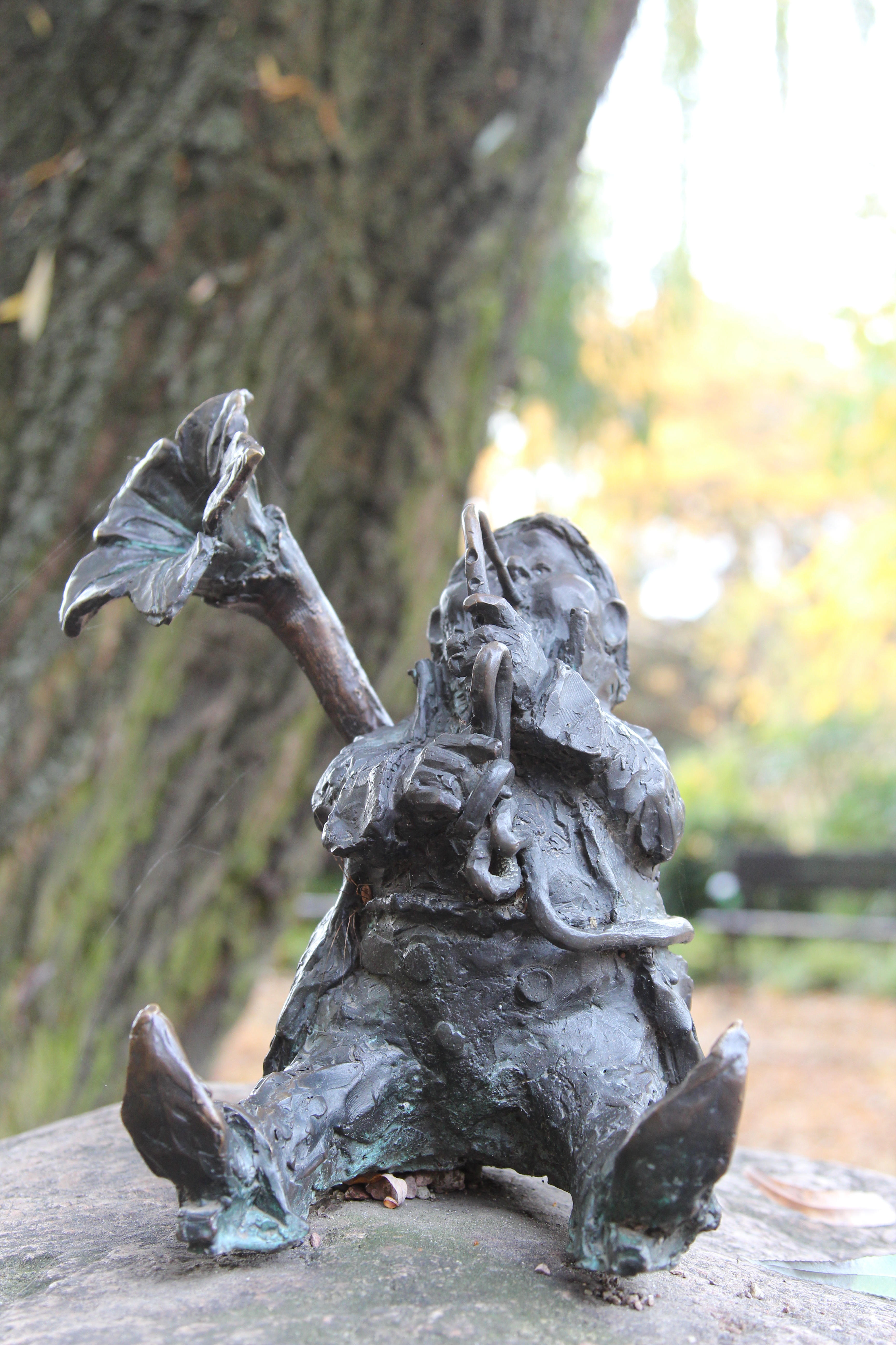 Botanist (Botanik) dwarf from Wrocław botanical garden on Sienkiewicza 23